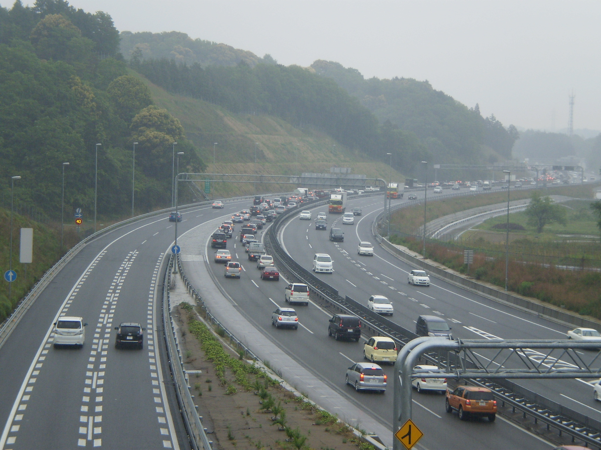 Higashi-Meihan Expressway (The vicinity of Kameyama junction) I took this image at Henboji Kameyama City Mie Pref., Japan.